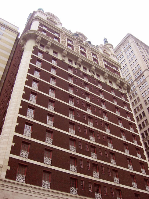 The Adolphus Hotel located in Dallas, Texas, United States. The hotel was built in 1912 in a Beaux Arts style and was added to the National Register of Historic Places in 1983.